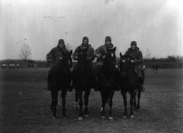 Photograph shows four football players on horseback holding footballs. (Notre Dame backfield) [Harry Stuhldreher, Don Miller, Jim Crowley, and Elmer Layden.]